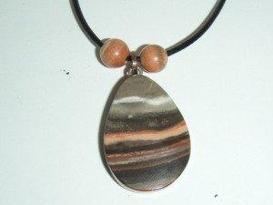 A necklace made of Caymanite